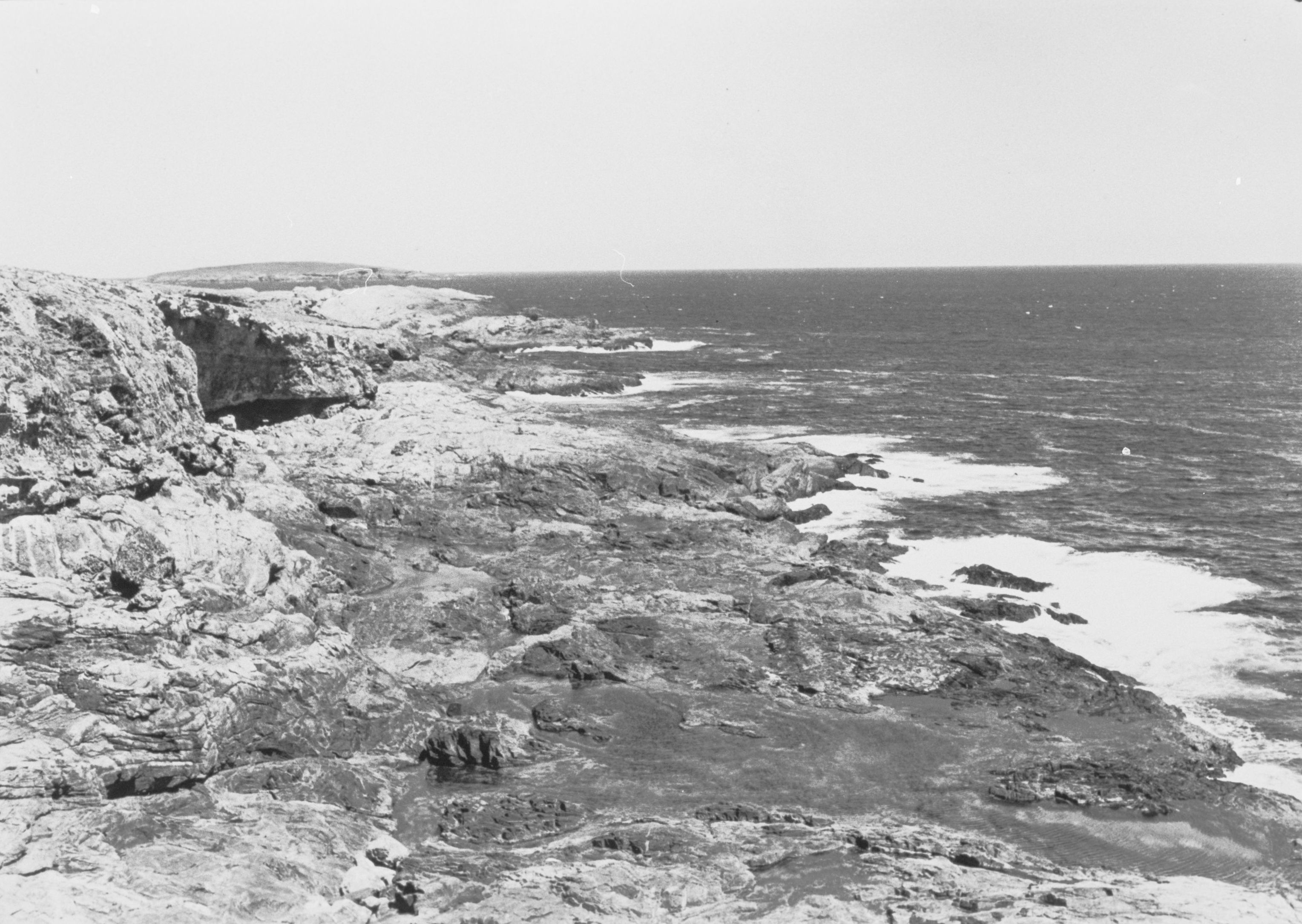 May also have been known as Cape Karnot